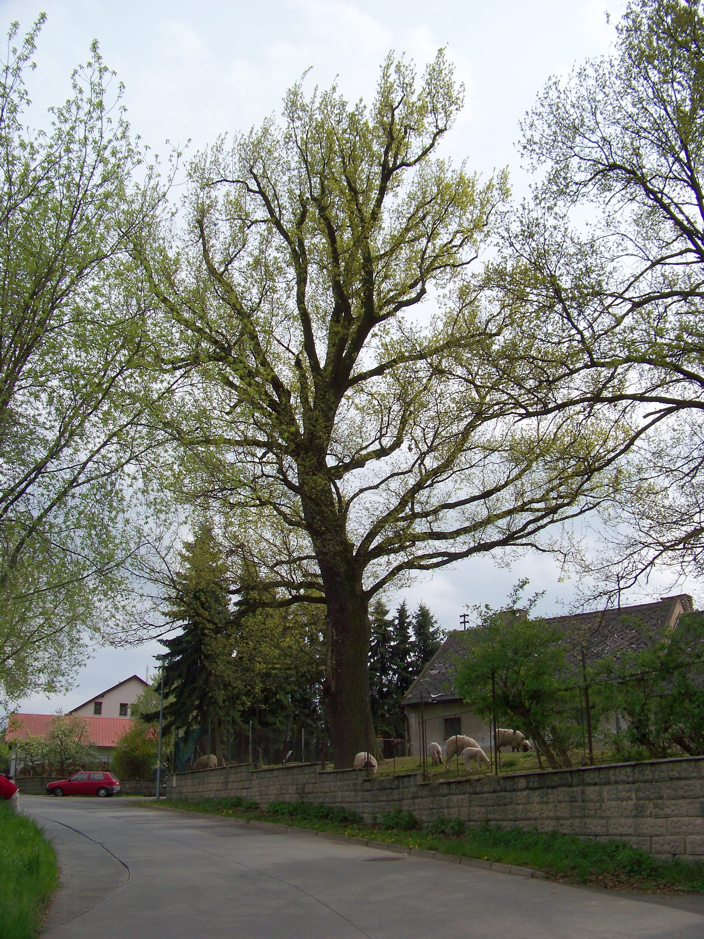 Prague-Nedvězí, Czech Republic. Pánkova street, a memorable oak.